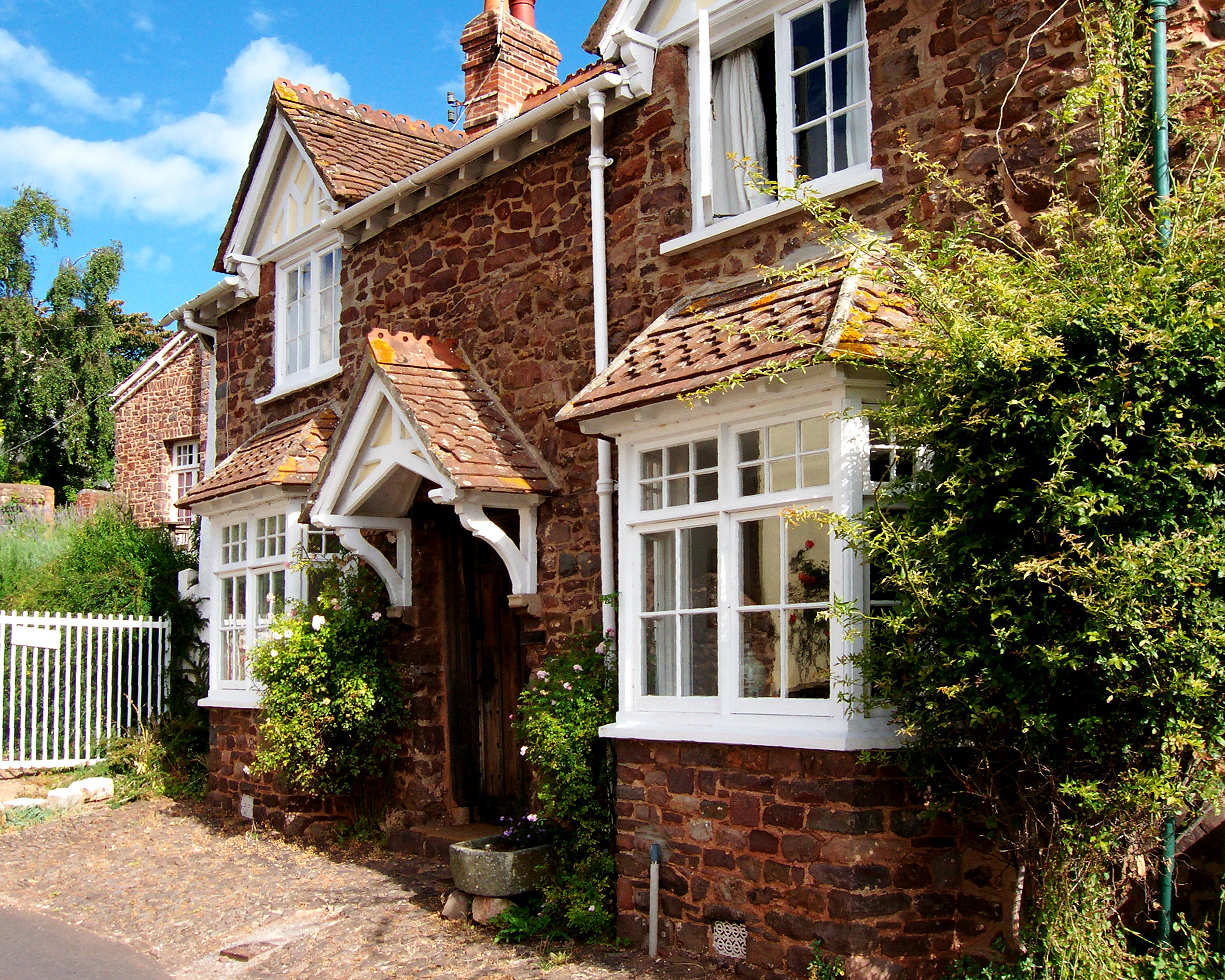 Cottage on The Ball, just off High Street in the village of Dunster near Minehead, Somerset, UK.